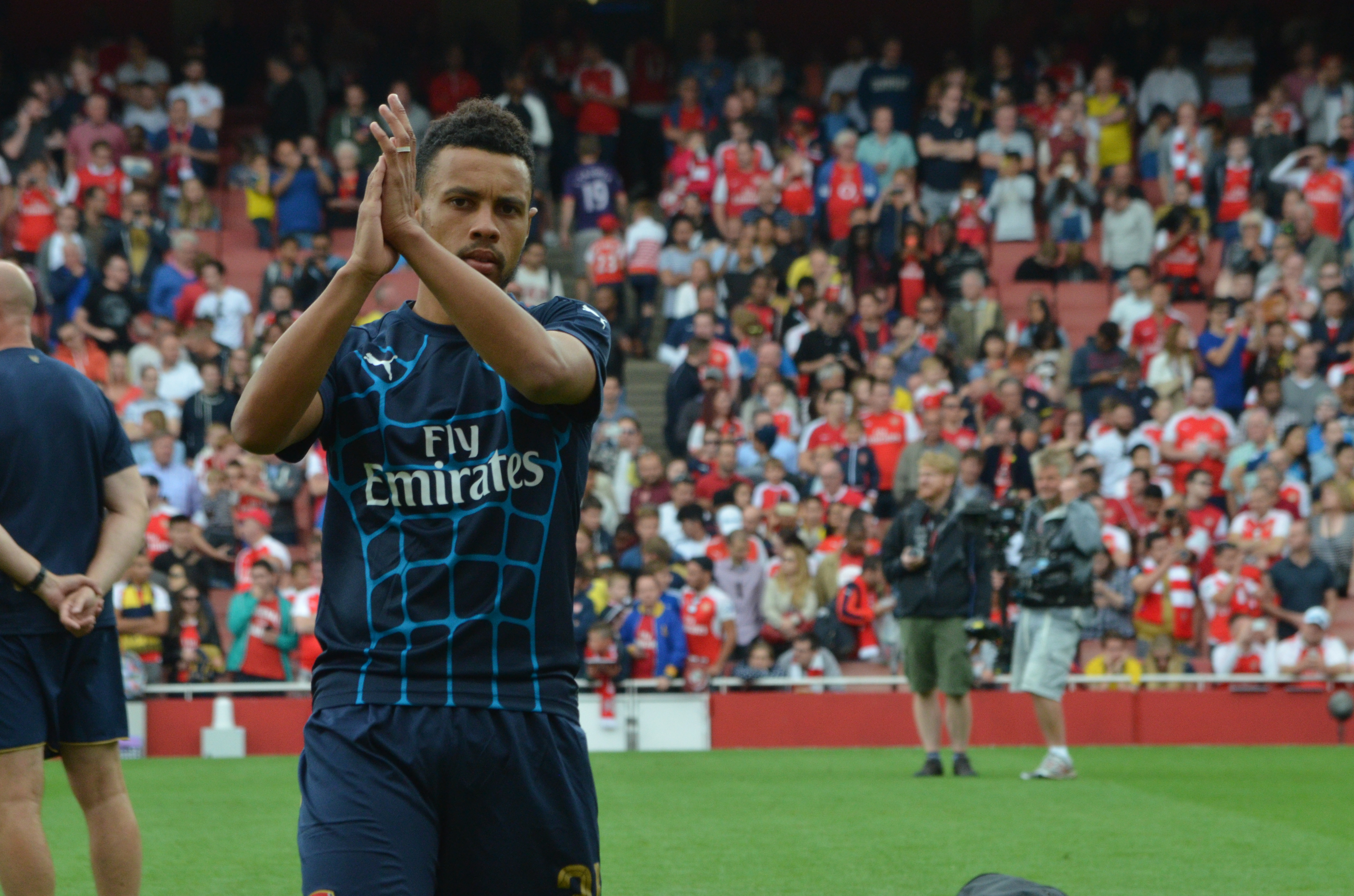 Francis Coquelin warming-up during the 2015 Emirates Cup